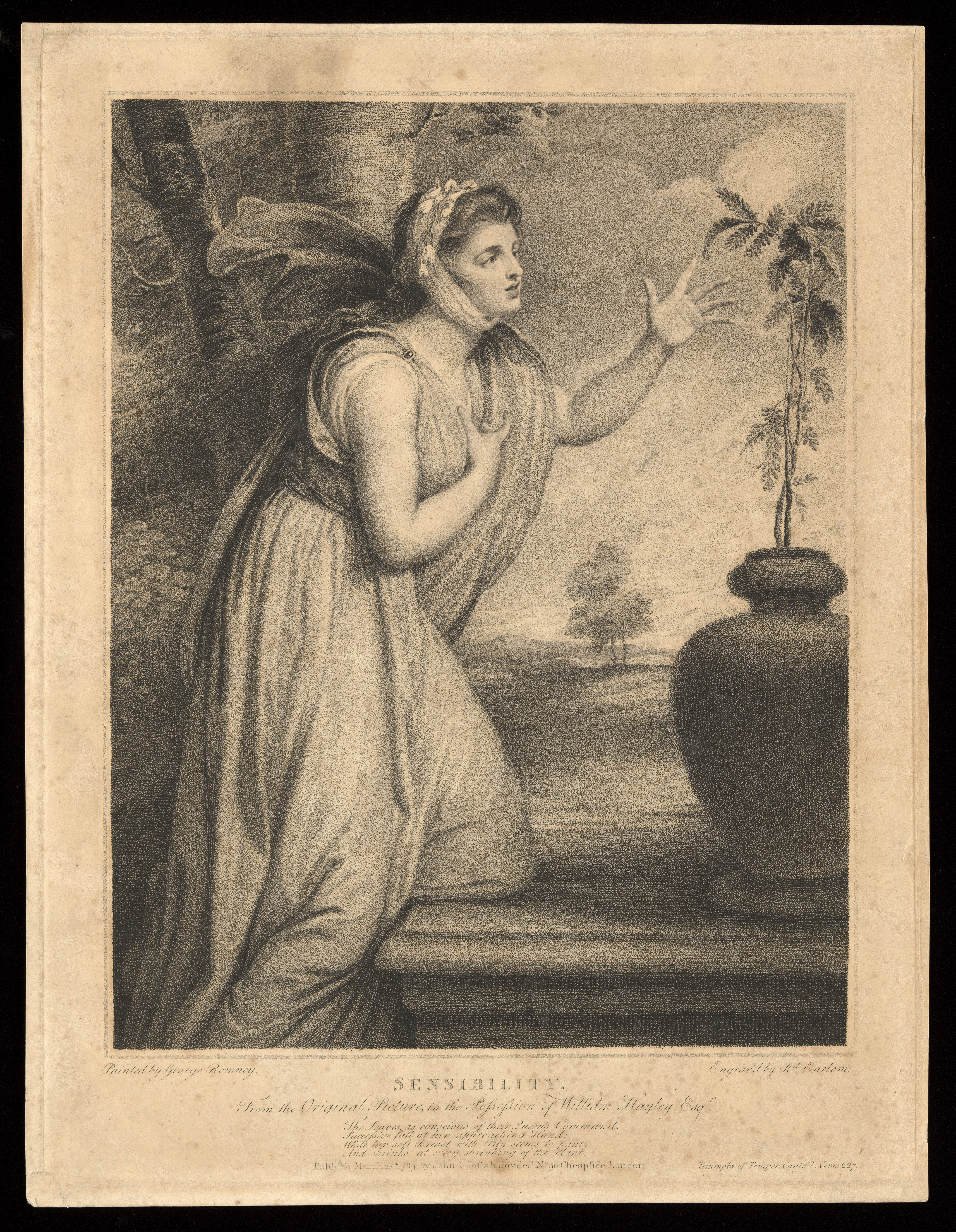 Emma Hamilton in an attitude towards a mimosa plant, causing it to demonstrate sensibility. Stipple engraving, 1789. Iconographic Collections Keywords: Plants; Plant; Woman; Mimosa; Emma Hamilton; Portrait; George Romney; Awareness